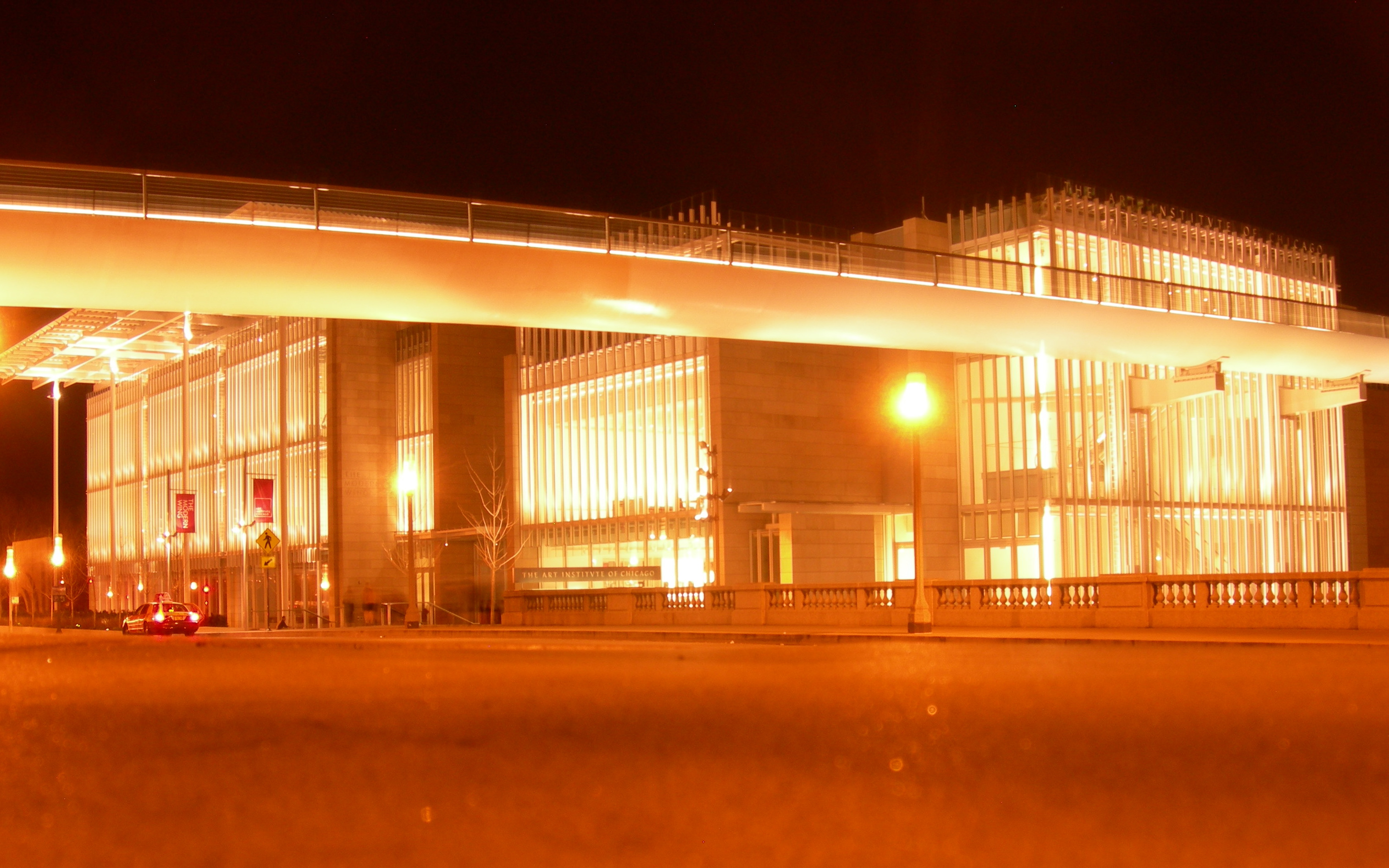 Art Institute Modern Wing Night